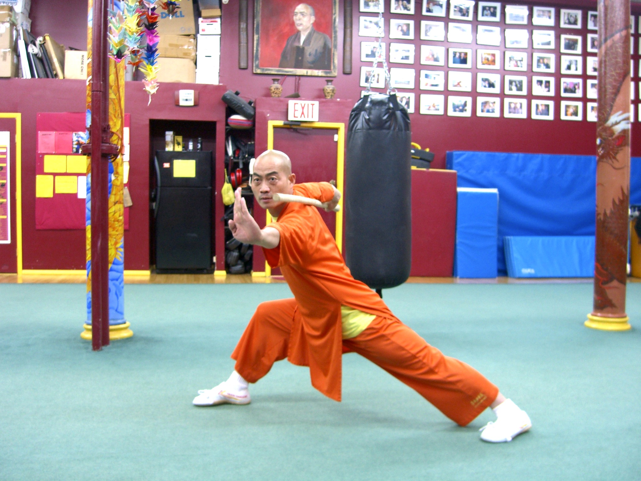 34th generation Shaolin warrior monk Shi Yan Ming, at the USA Shaolin Temple in Manhattan, November 4, 2010. Many thanks to Shifu Yan Ming and his staff. Photographed by Luigi Novi. This photo may be used, modified and published for any purpose, only if an easily visible credit to the photographer is placed near the photo in each instance in which it is used. (See licensing information below.) Publication of this photo without this proper attribution constitutes copyright infringement. For more information on my photos, you can contact me here.